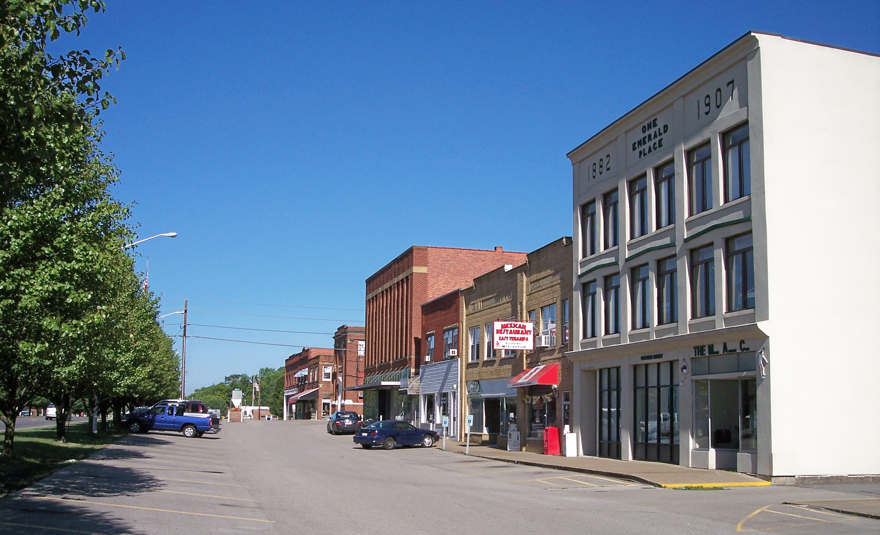 Main Street along U.S. Route 60 in Milton, West Virginia. Route 60 is at left.